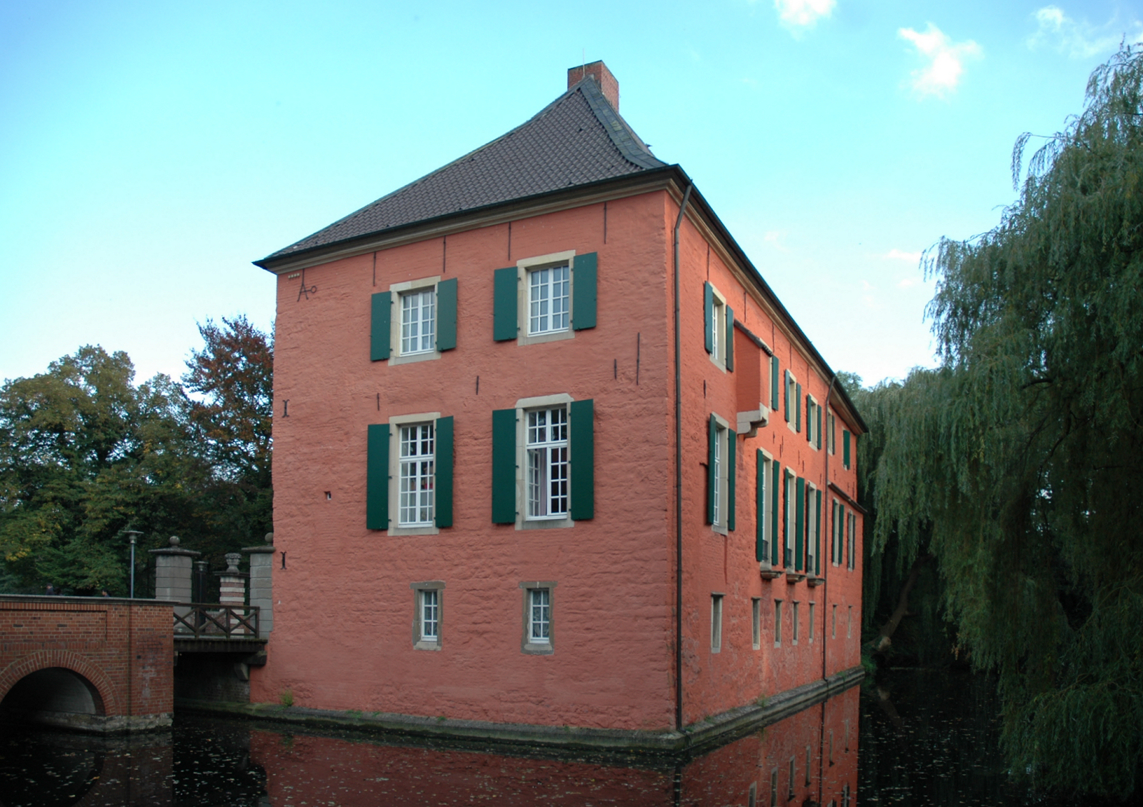 Haus Lüttinghof in Gelsenkirchen-Hassel, inner ward